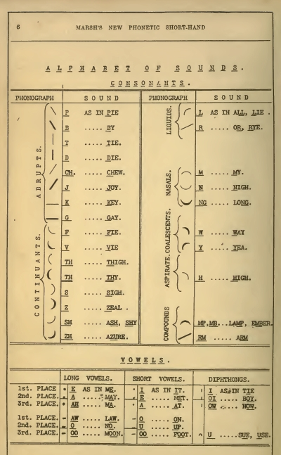 The reformed phonetic short-hand alphabet (p. 6, Marsh's New Manual)